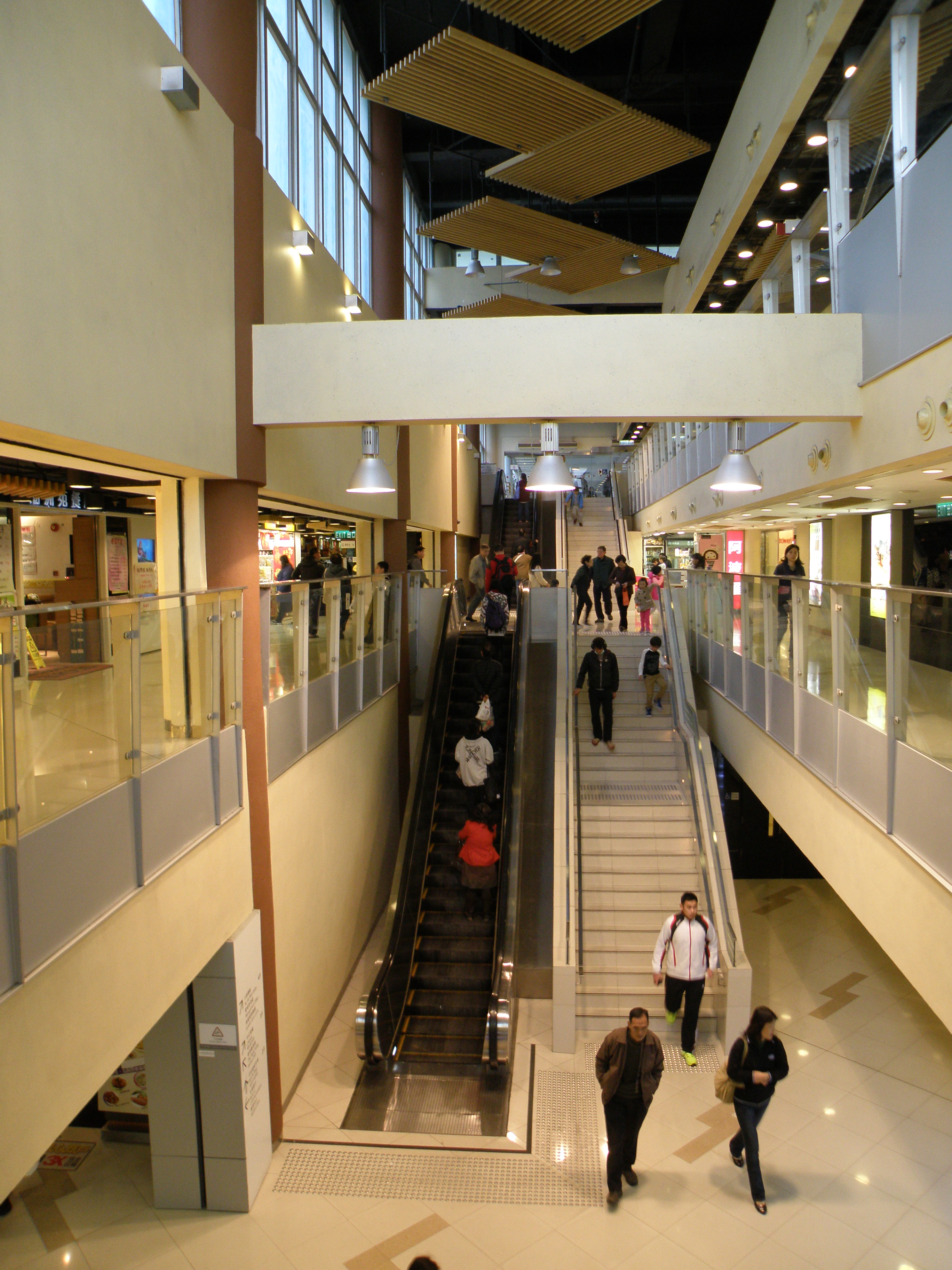 Siu Sai Wan Plaza in Siu Sai Wan, Hong Kong.